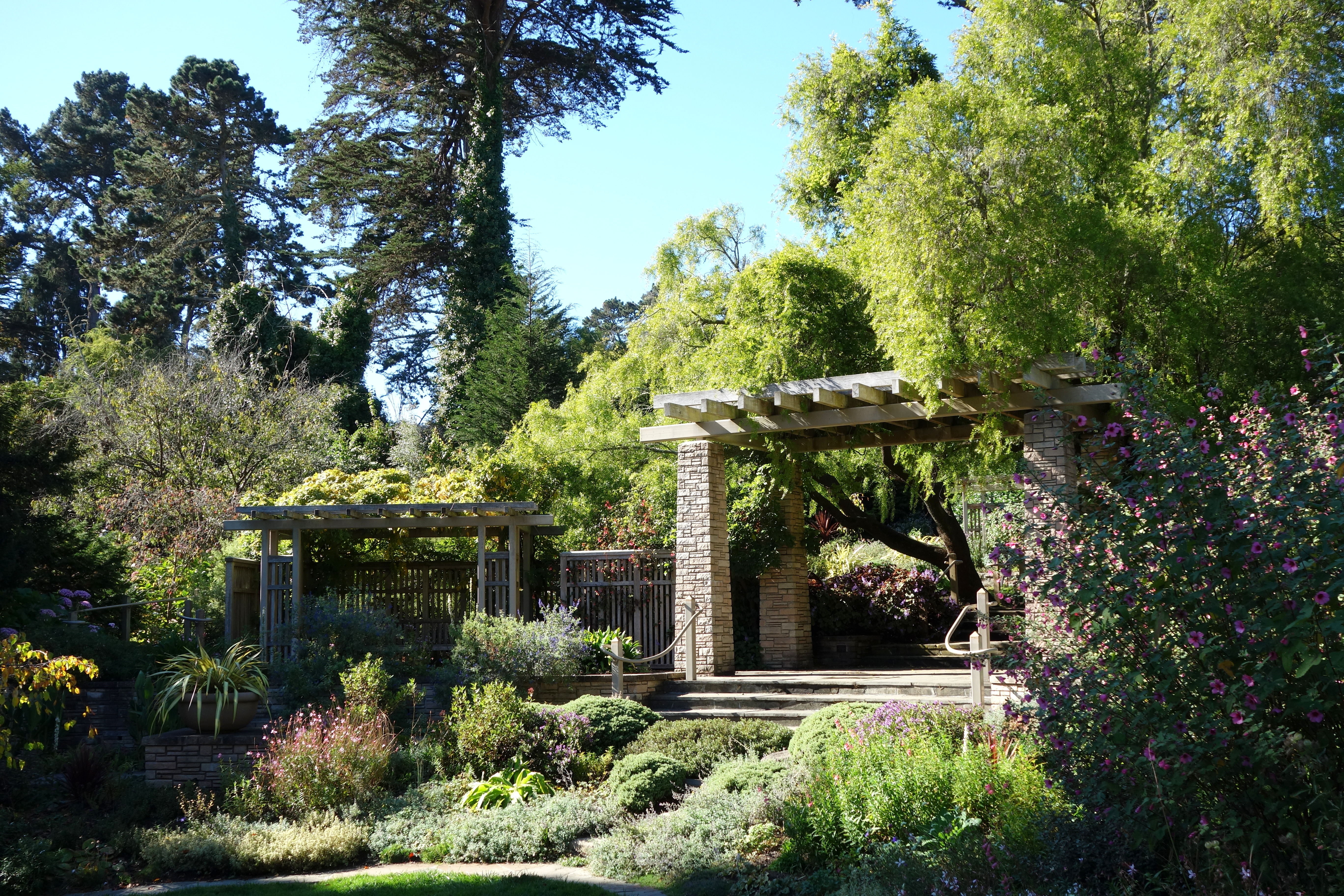 Botanical specimen in the San Francisco Botanical Garden, San Francisco, California, USA.